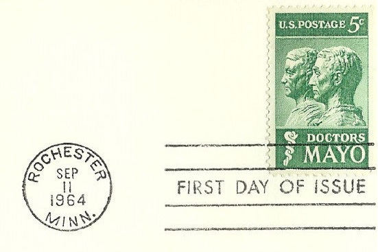 First day cover of the United States Postal Service stamp depicting Charles Horace Mayo and William James Mayo, postmarked 11 September 1964 in Rochester, Minnesota. The stamp was designed after a bronze statue of the Mayo brothers by James Earle Fraser. It was was released prior to 1978 and is therefore public domain.